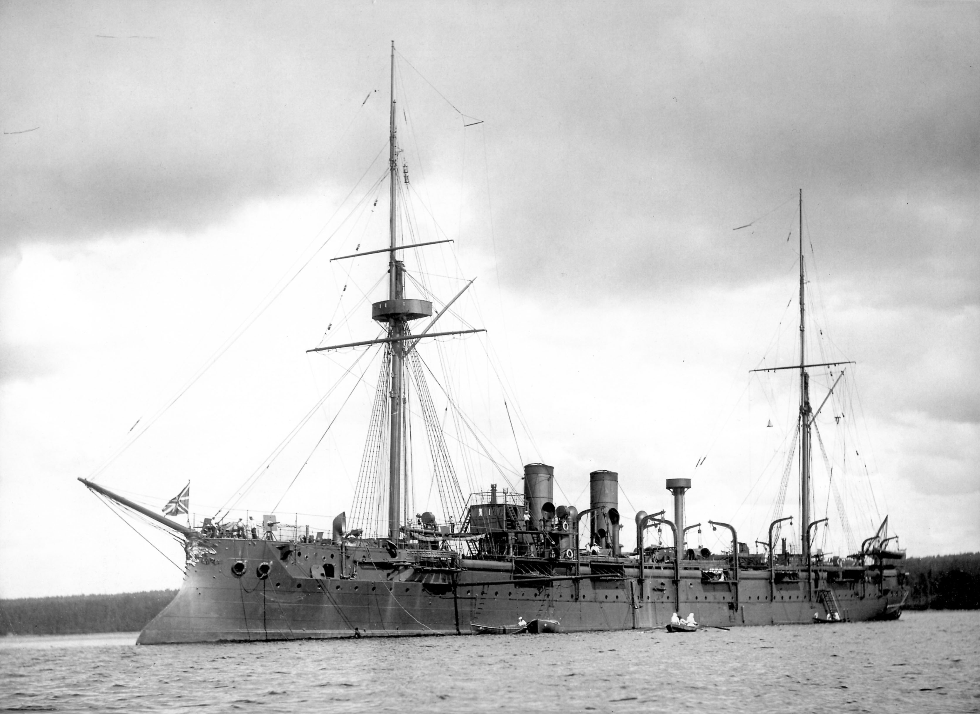 Imperial Russian cruiser Admiral Kornilov at Gulf of Finland, 1905-1907.